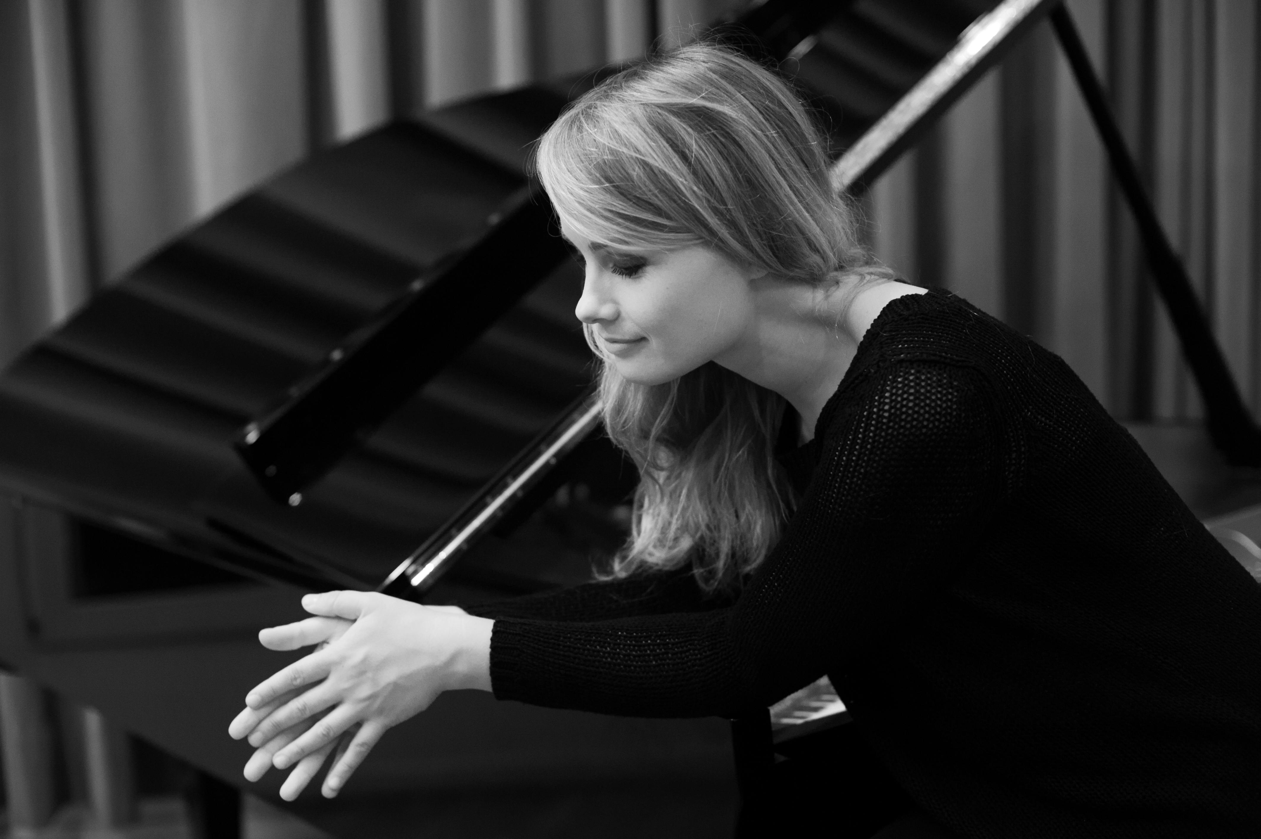 Katharina Treutler, 2016 (Conservatoire National Supérieur de Musique et de Danse de Paris)